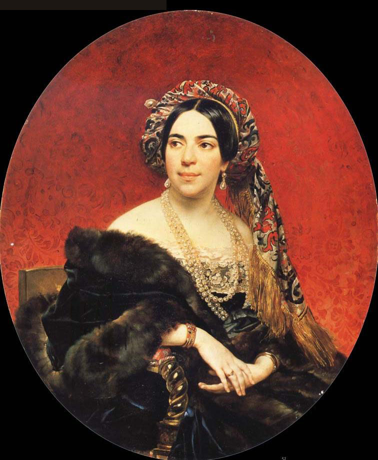 Portrait of princess Mariya Volkonskaya (1805-1863) by Russian painter Karl Briullov (1799-1852)